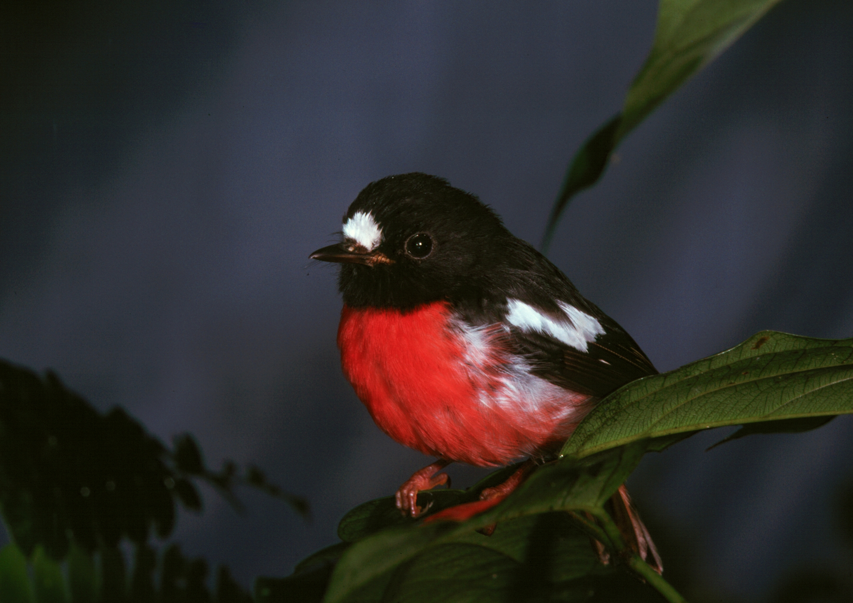 Male Pacific robin, Nadarivatu-Nadrau Plateau, Viti Levu, Fiji; 1976 Aug. 2